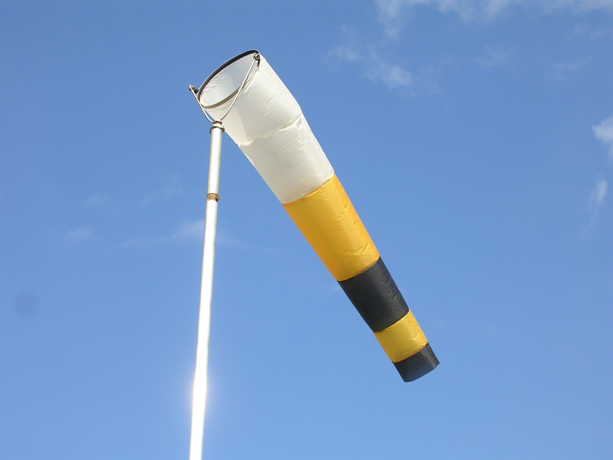 Windsock. Černé Voděrady, Central Bohemian Region, the Czech Republic.